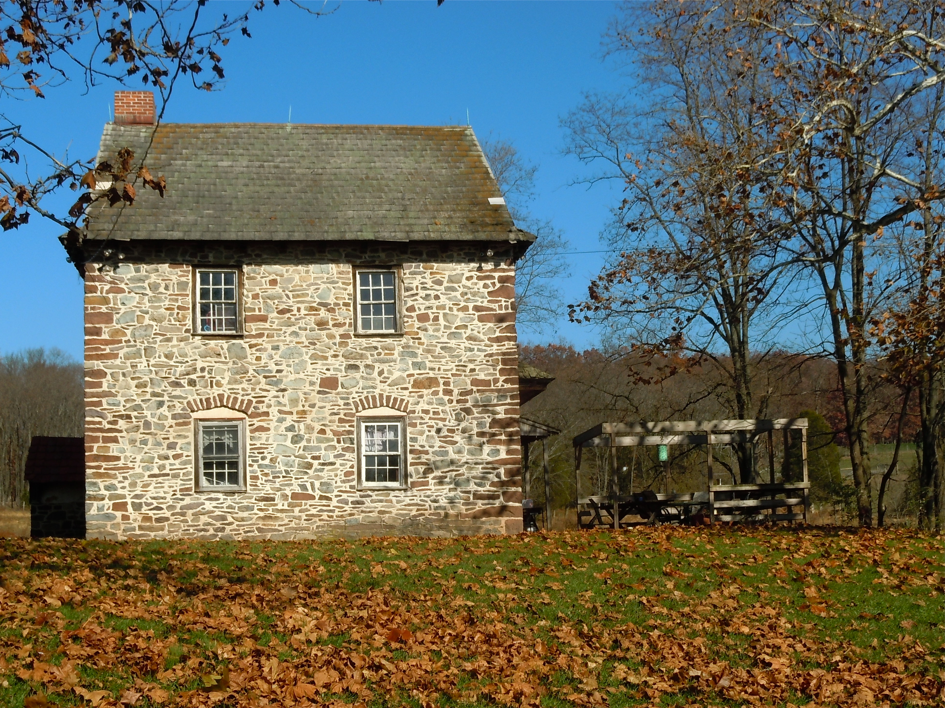 Conrad Grubb Homestead on the NRHP since June 19, 1973. Located northwest of Schwenksville off Pennsylvania Route 73 on Perkiomenville Road, Schwenksville, Montgomery County, Pennsylvania.